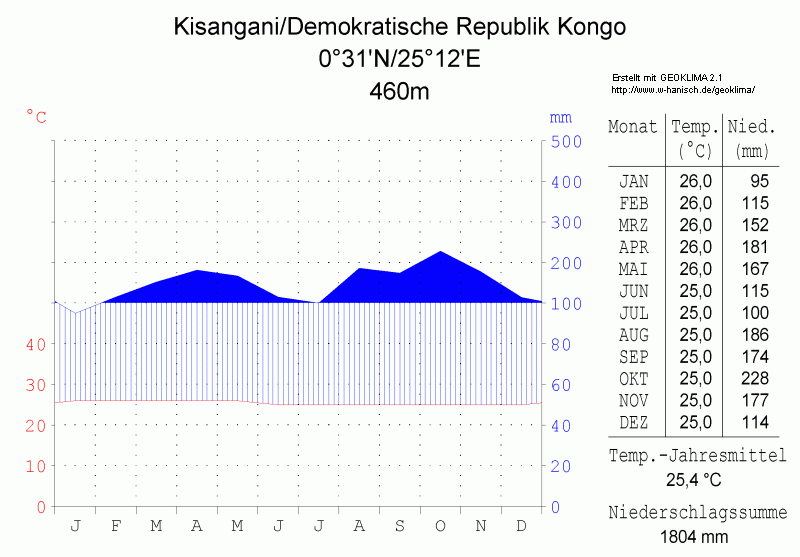 climate chart in the format by Walther and Lieth, metric, °Celsisus and millimeters, made with Geoklima 2.1